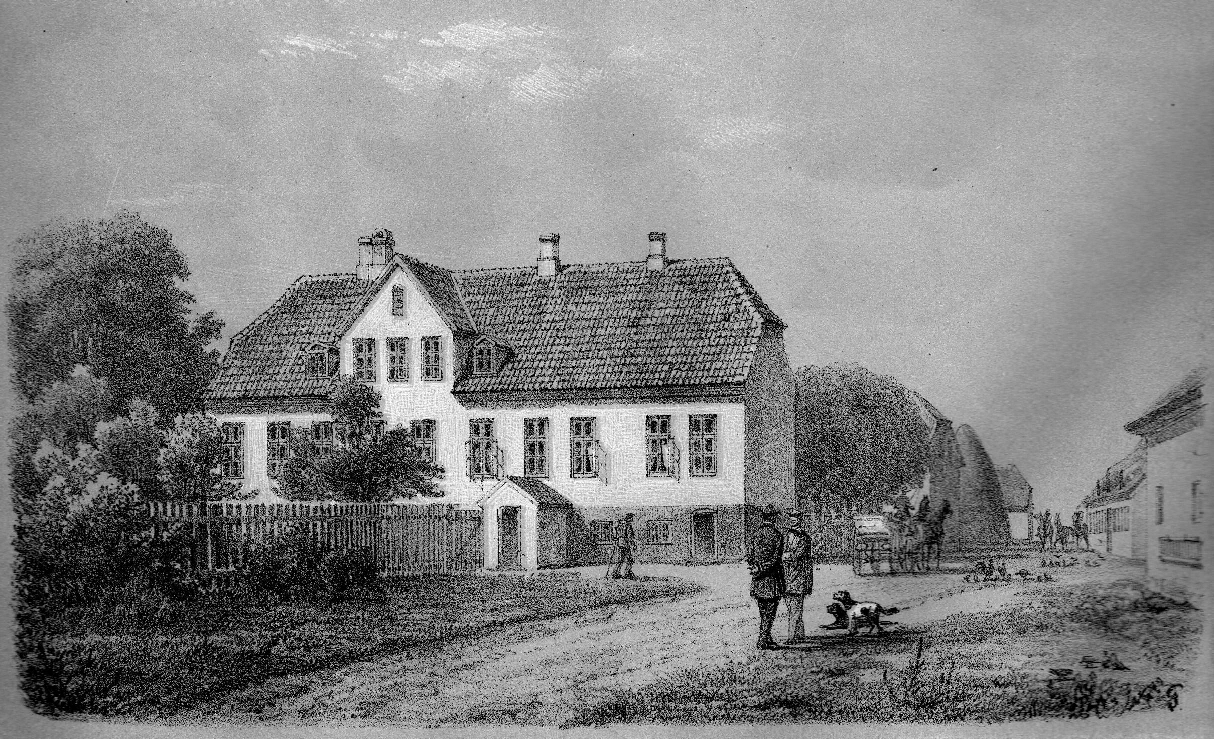 Scanned by myself from a copy of the old book in 2007. The book was graciously lent to me by Det Kongelige Garnisonsbibliotek.